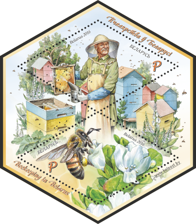 Beekeeping in Belarus.